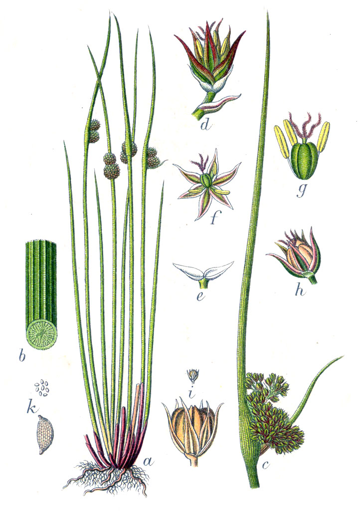 Juncus conglomeratus L. Original Caption Dichtblütige Binse, Juncus conglomeratus